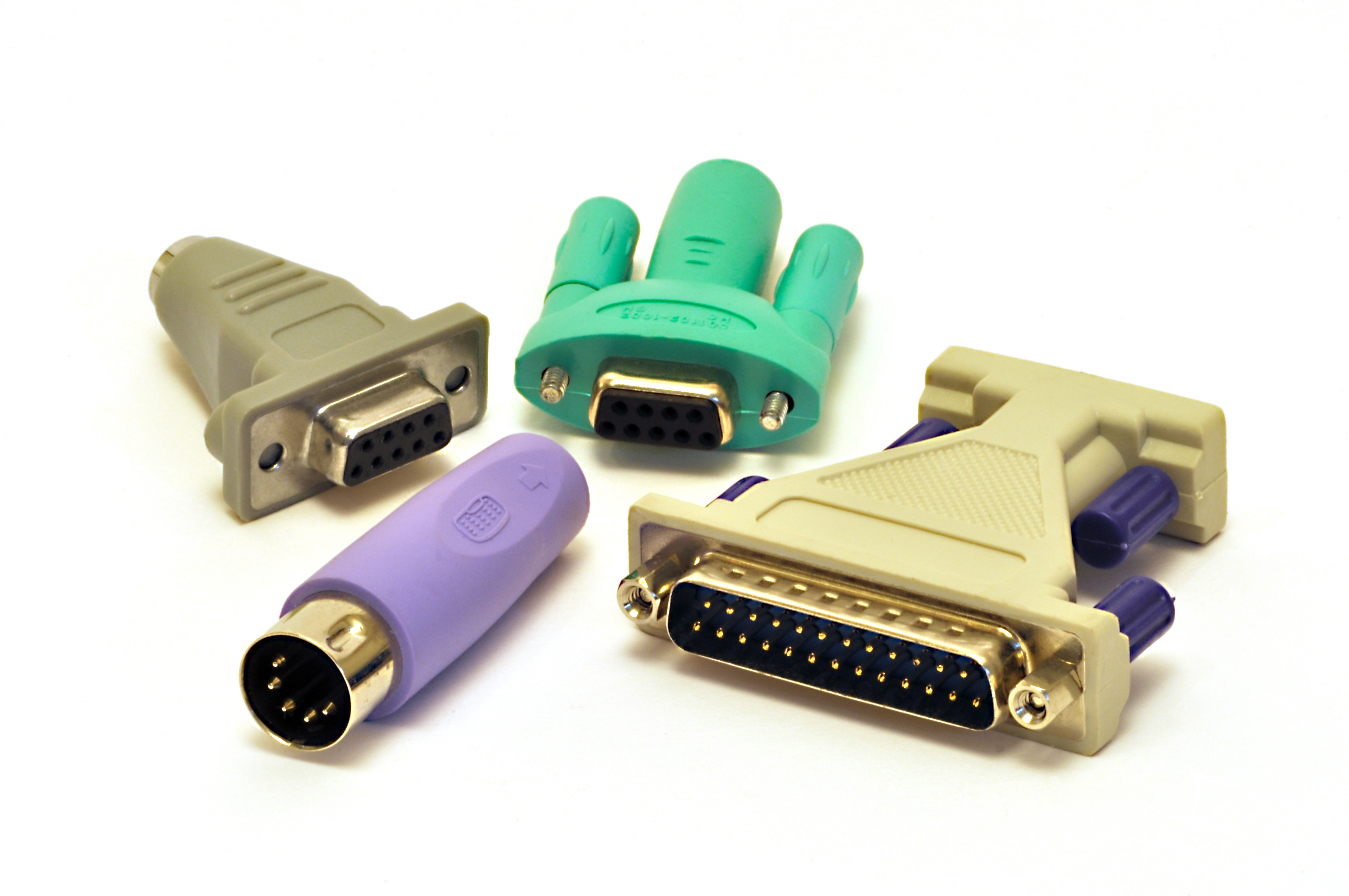 Several adapters for computer use